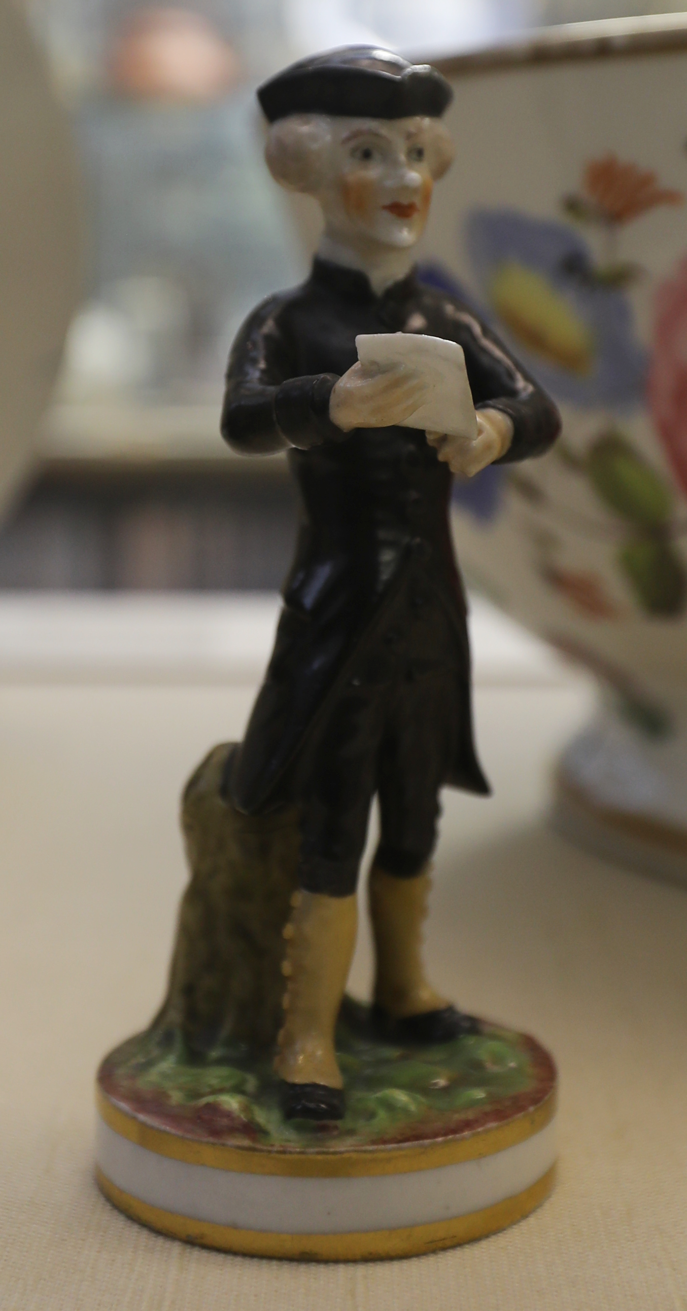 Photo of a china cast from around 1825 depicting Dr Syntax landing at Calais